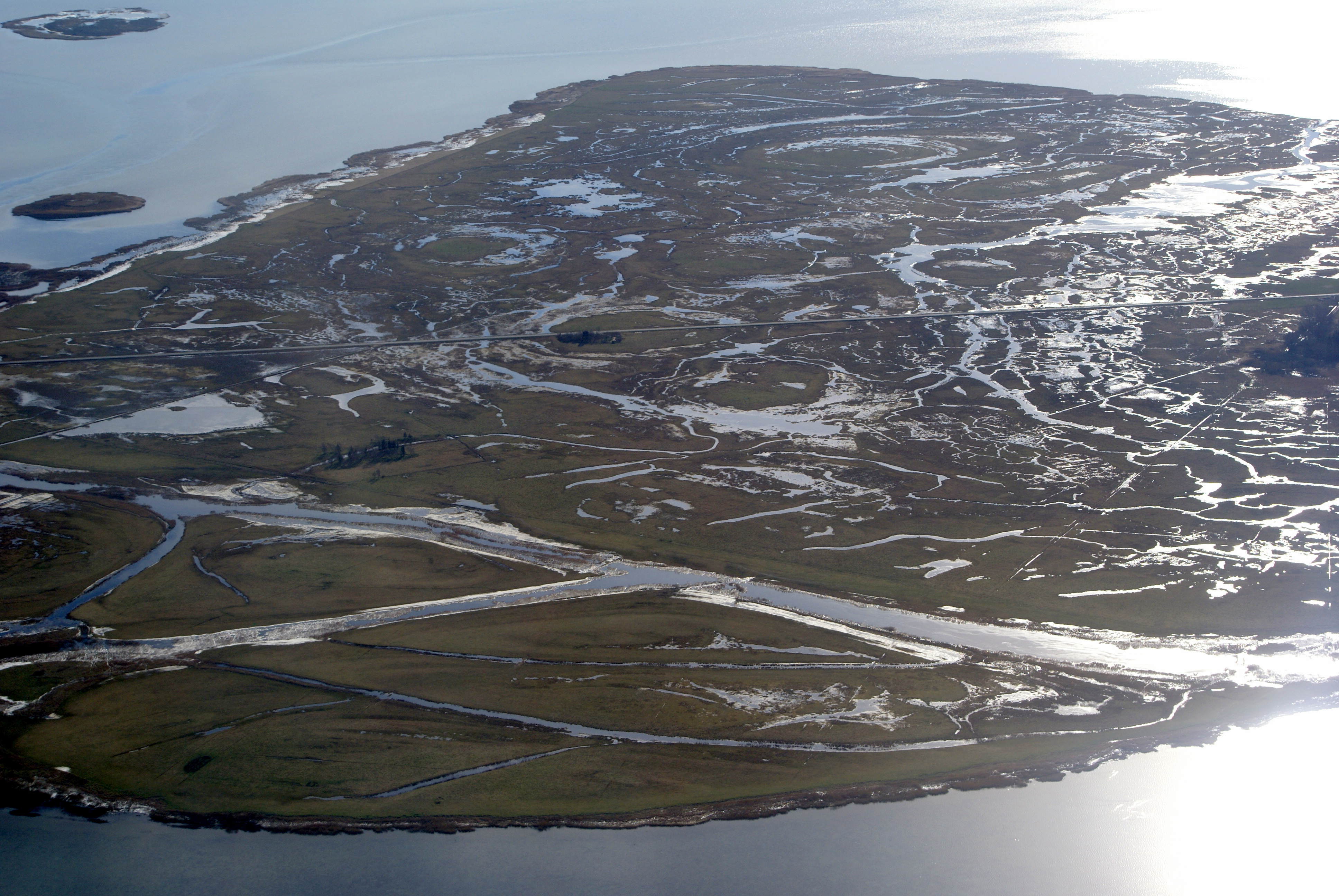 The island of Nyord, Denmark. Seen from north-east.